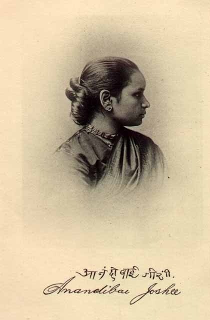 Photograph of Anandi Gopal Joshi with her signature.